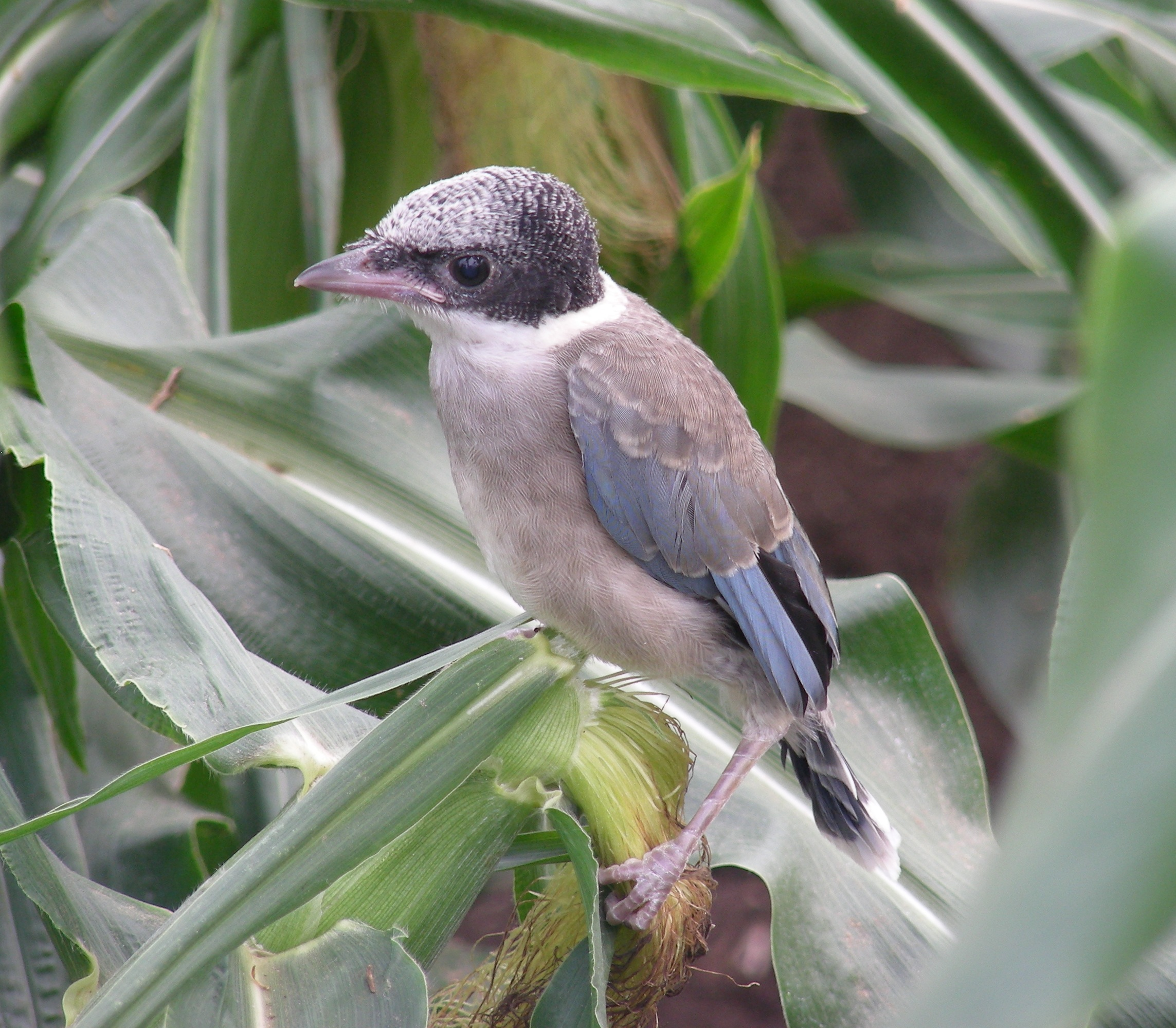 Cyanopica cyanus fledgling. Aomori Prefecture, Japan